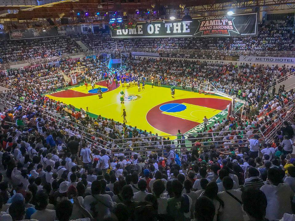 The coliseum during the Maharlika Pilipinas Basketball League (MPBL) game between Zamboanga Valientes and Manila Stars. Owned by City Government of Zamboanga and it is public domain.